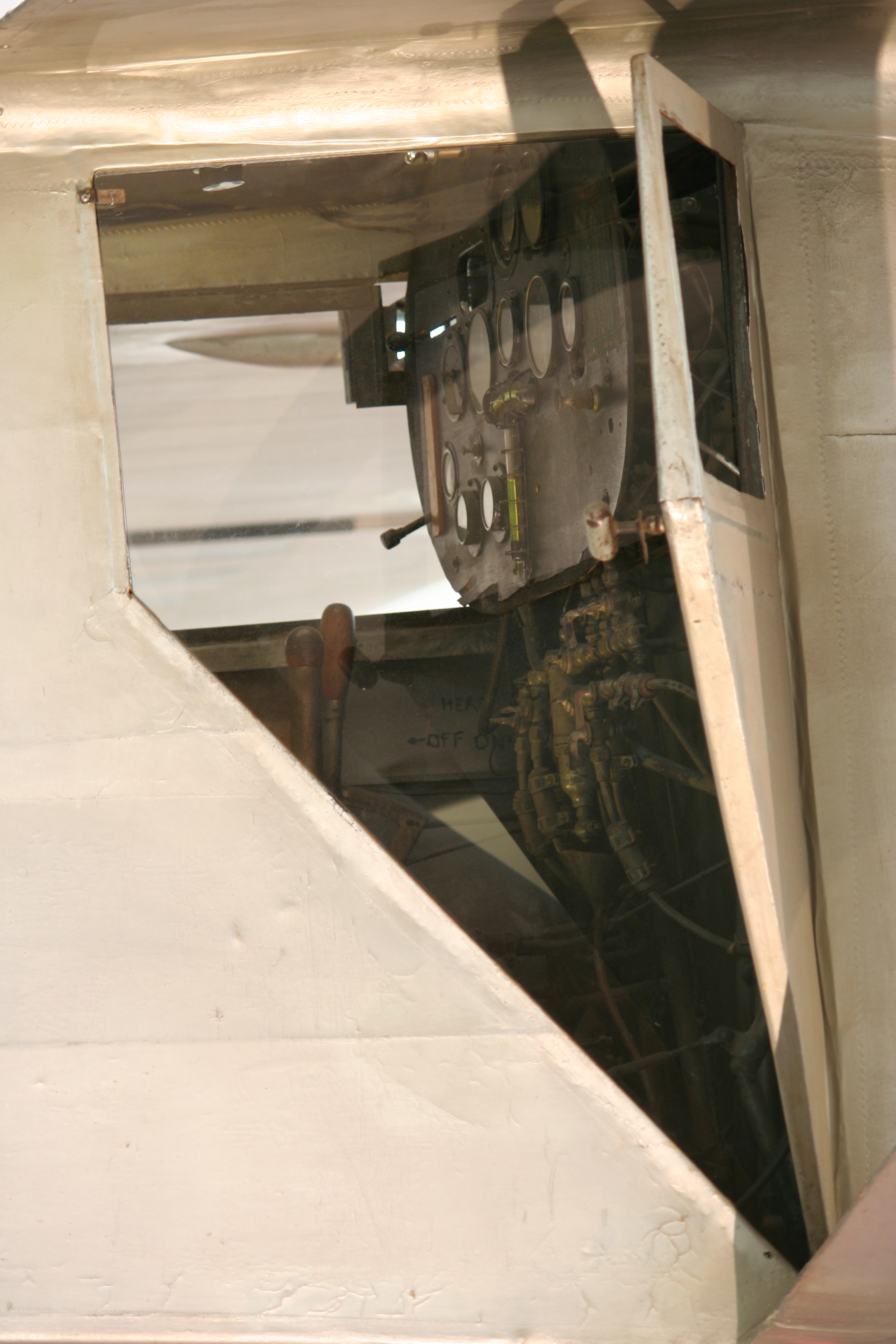 Cockpit of the Spirit of St. Louis. Washington, D.C.